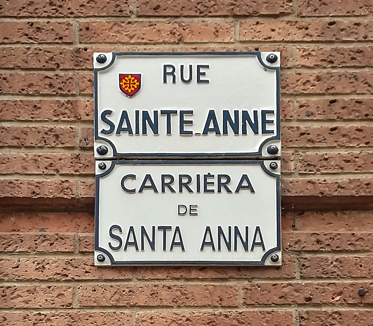 Sainte-Anne, in Toulouse - Street name sign. They have the particularity of being: in French and Occitan.